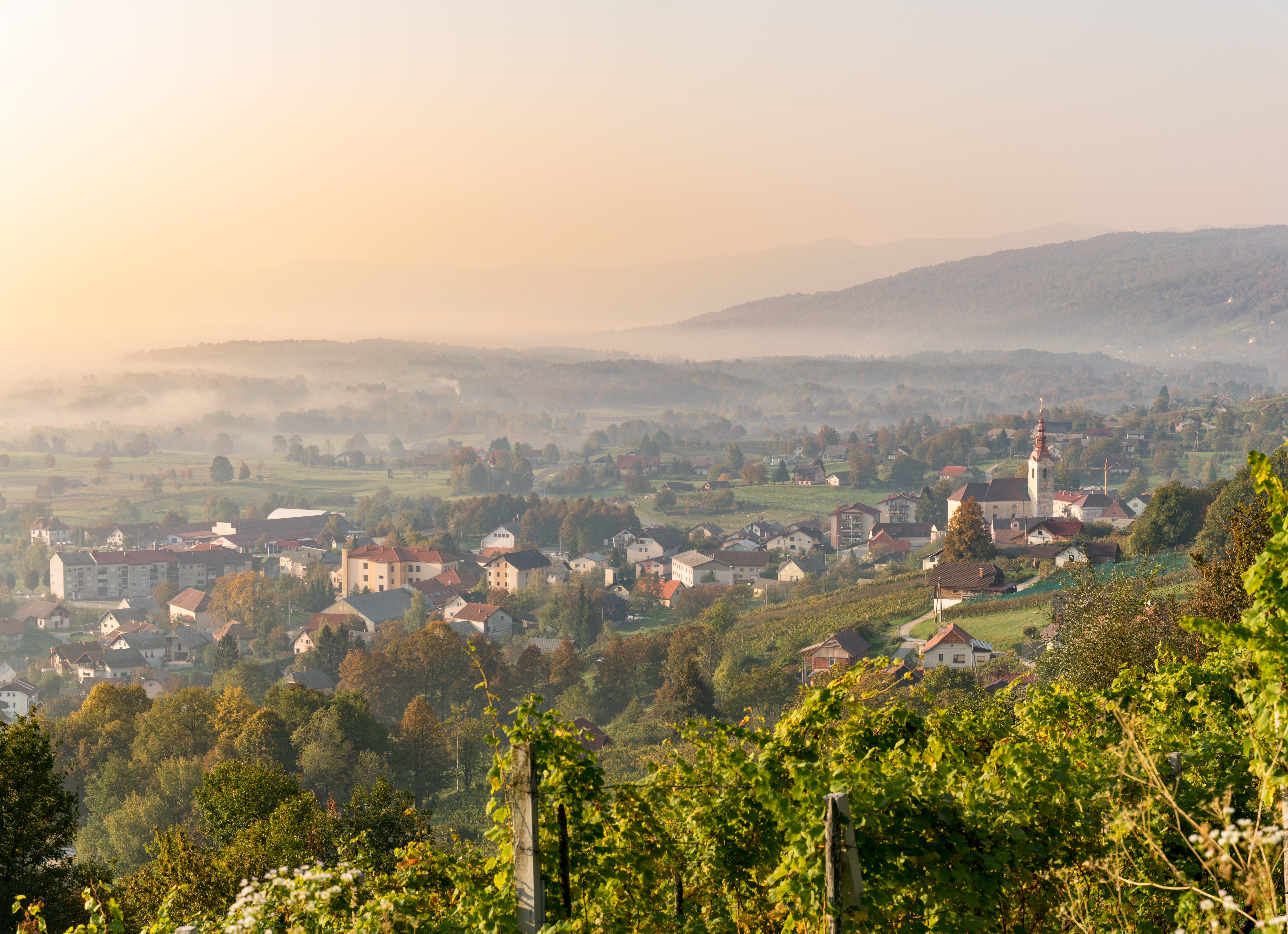 Semič is the third largest settlement and second largest municipality by area in Bela krajina, southeastern Slovenia.